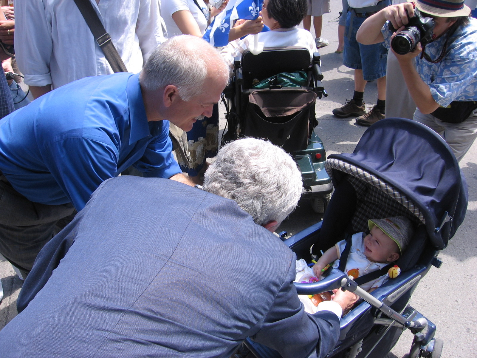 Jack Layton and Gilles Duceppe greet a young constituent at the Fête nationale du Québec, June 24, 2006.